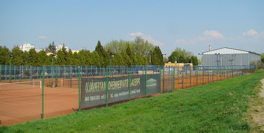 Nové Zámky: tennis-courts.